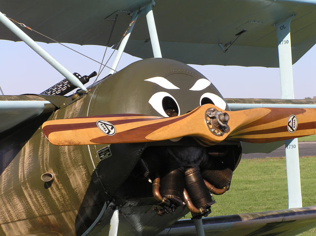 Fokker Dr.I replica